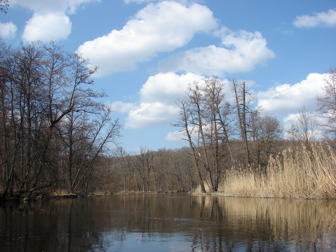 Bityug River in autumn